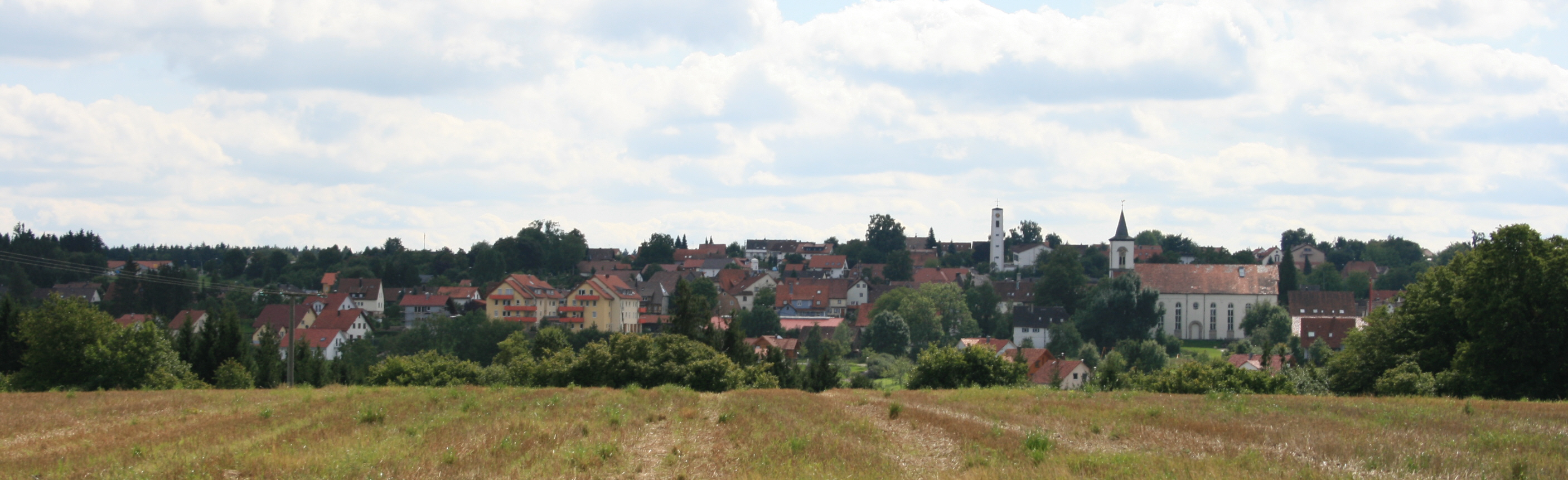 Mainhardt. view from Gailsbach